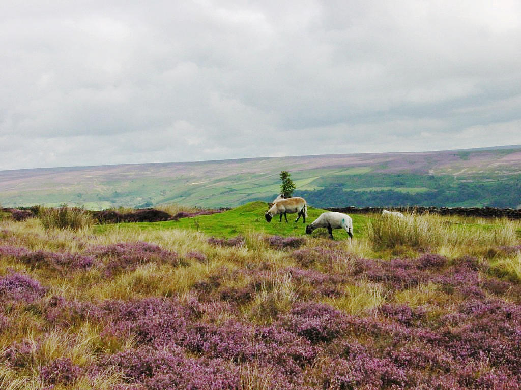 The moors near Hawnby, North York Moors nat. park